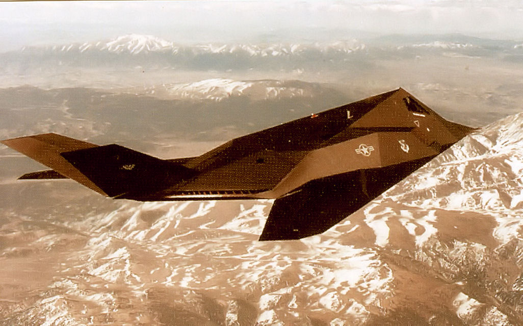 Lockheed F-117A Nighthawk - 81-10798 flying over the Sierra Mountains